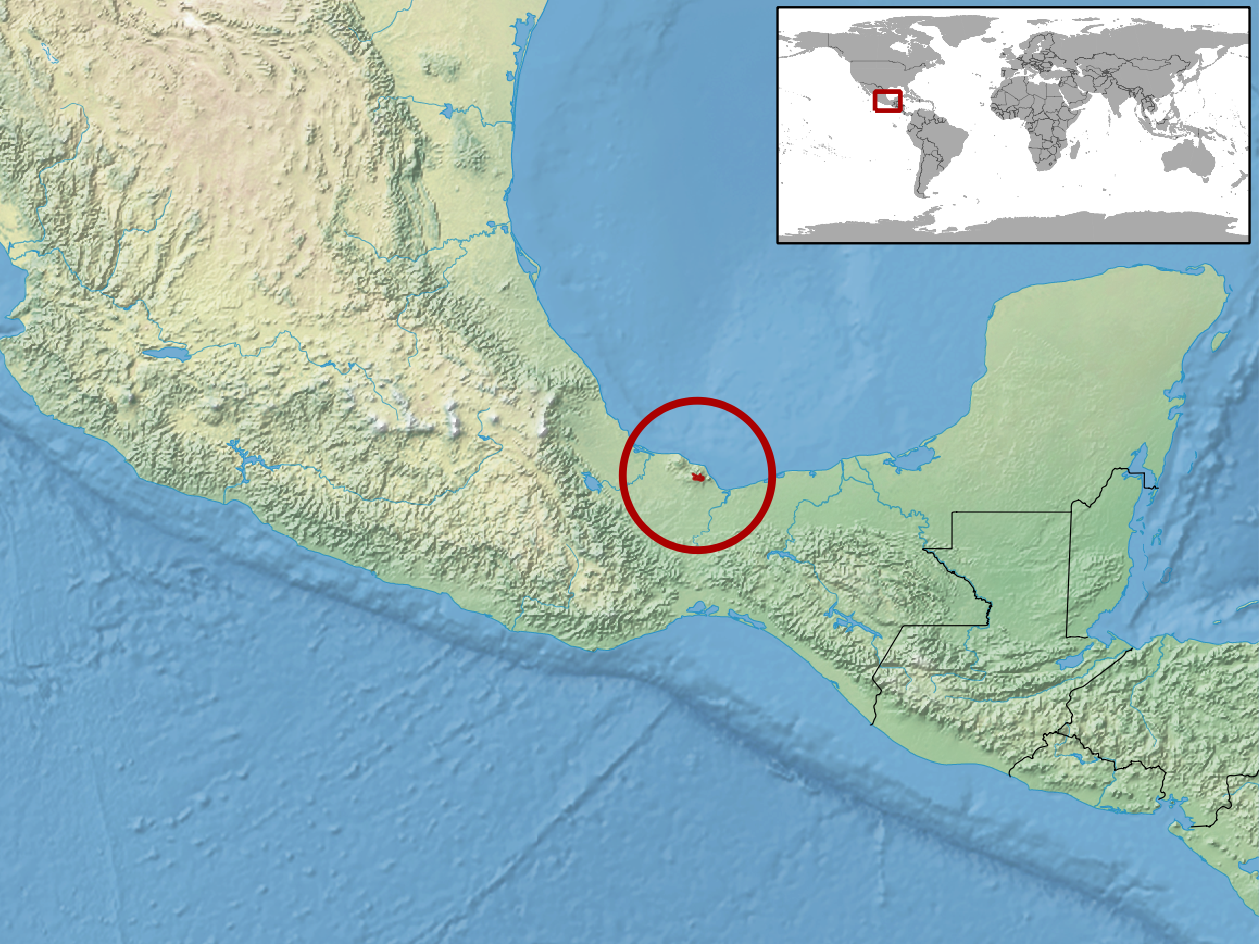 geographic distribution of Celestus ingridae syn Diploglossus ingridae (Native: Mexico)